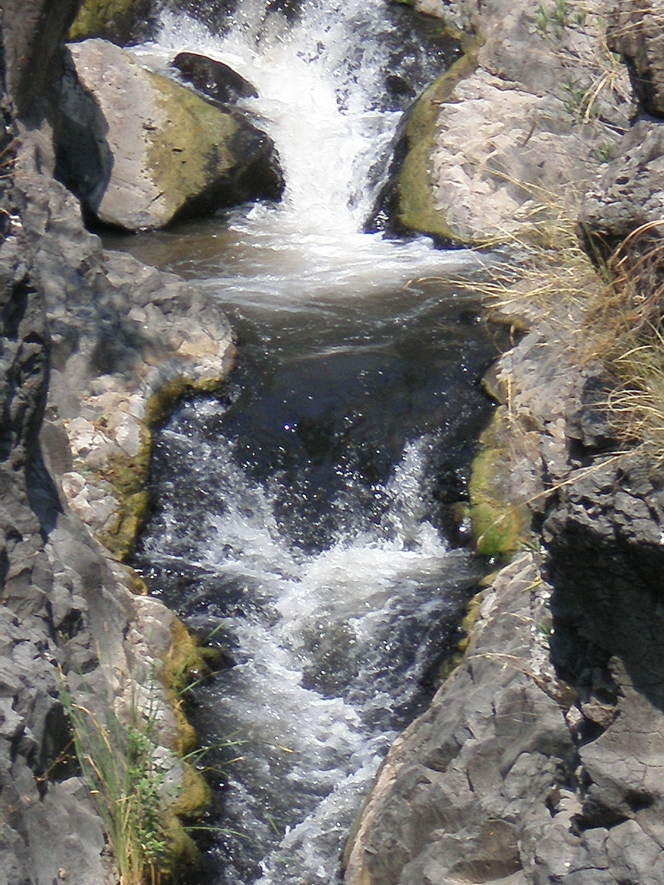 Meshushim River, next to Hexagon Pool, Golan Heights, Syria.